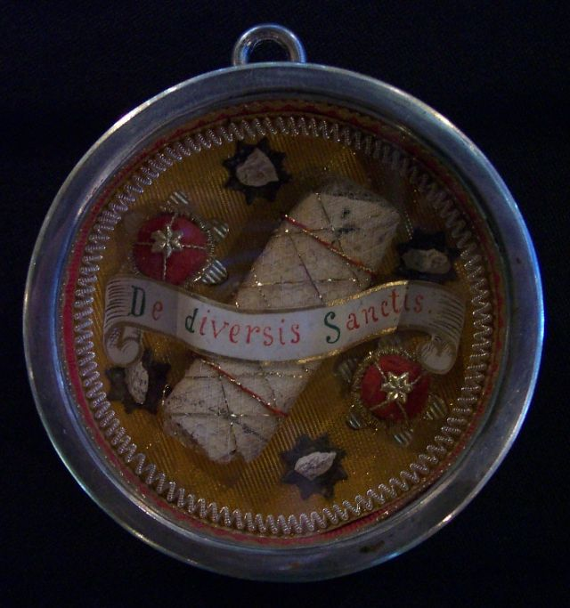 Obrázek relikviáře.